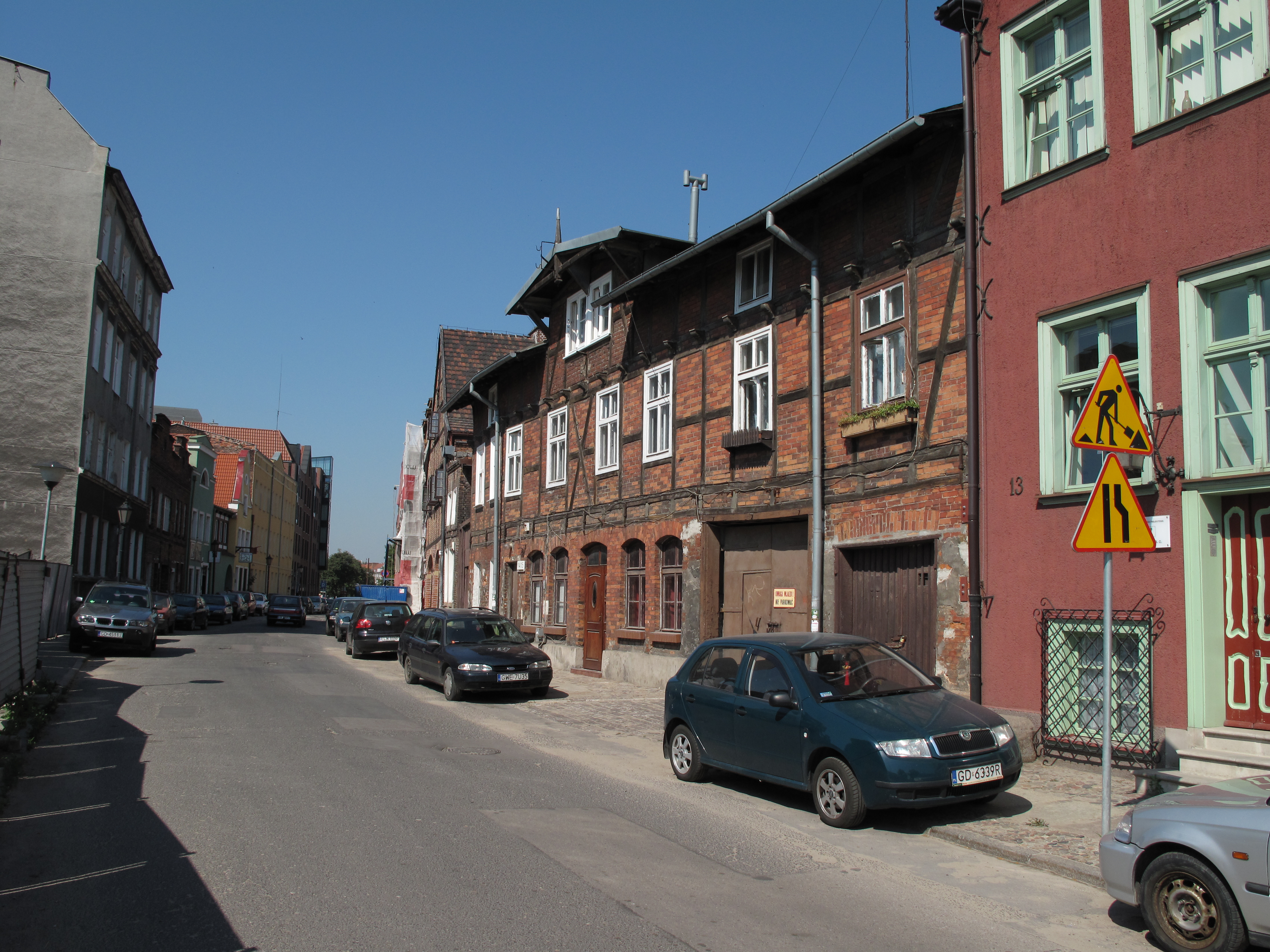 Gdańsk, Poland.